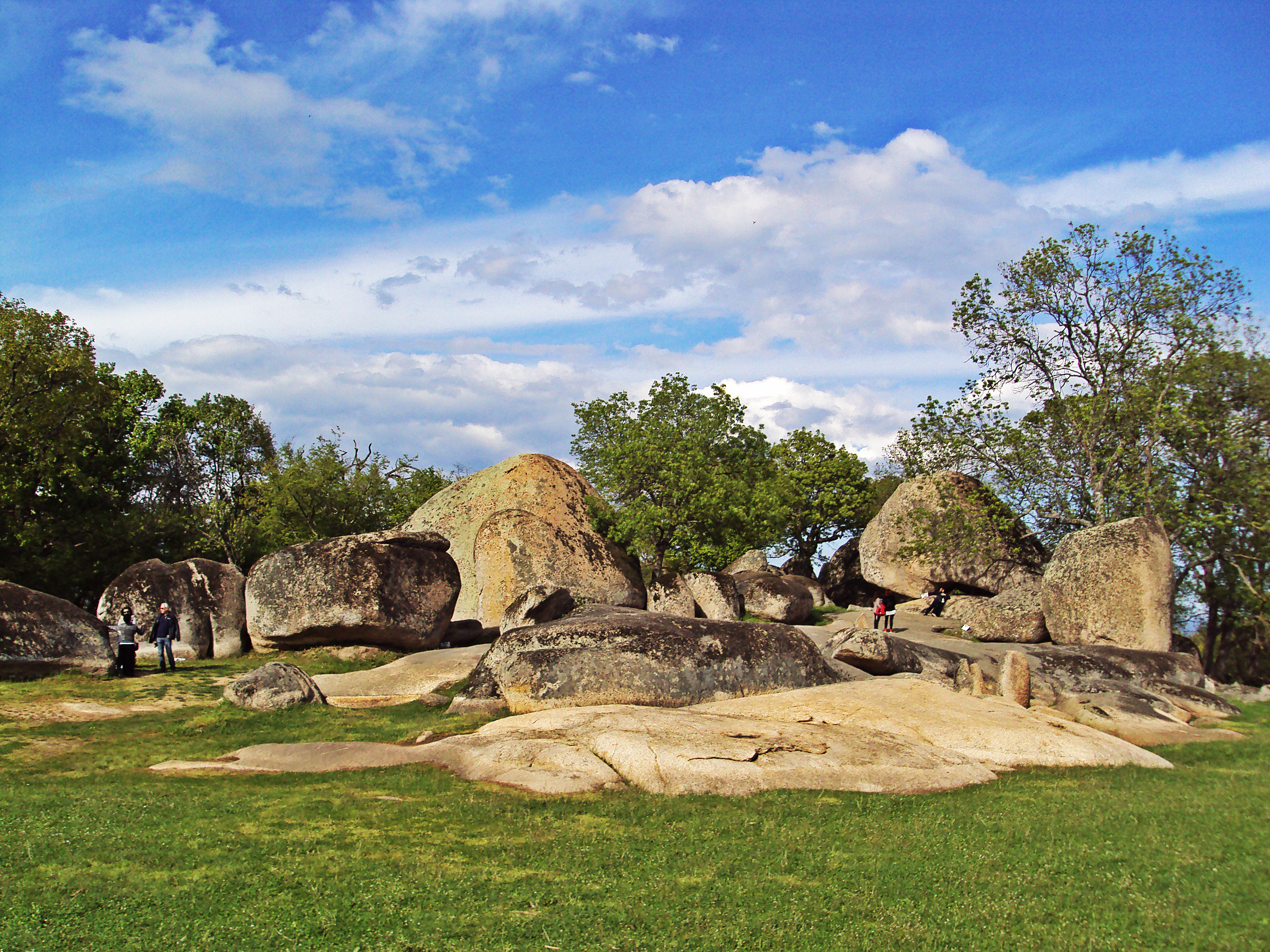 Main Begliktash BG